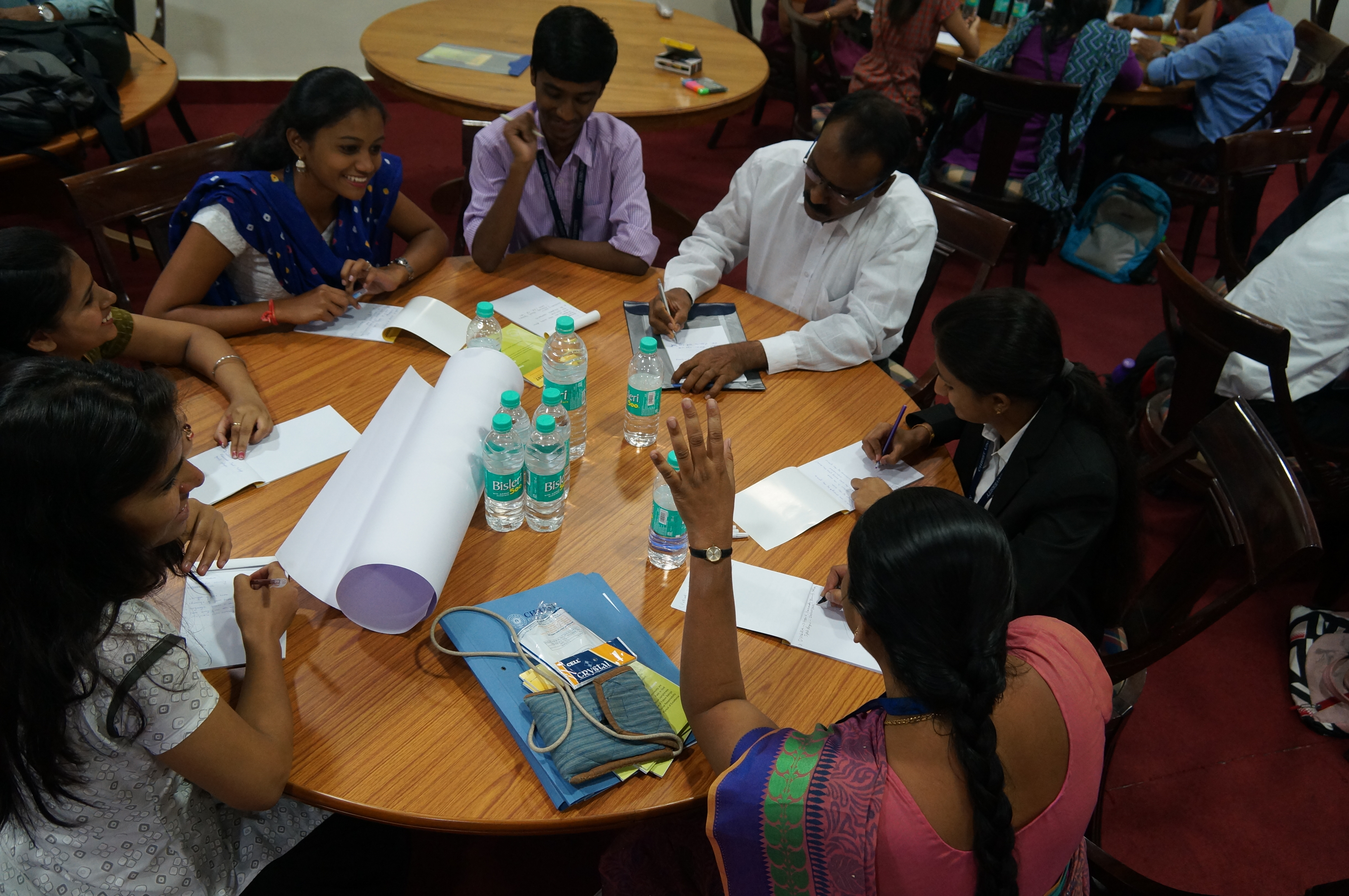 National Wikipedia Education Program